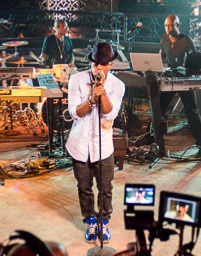 R&B superstar Ne-Yo speaks exclusively to Walmart Soundcheck about new album, 'R.E.D.,' along with his powerful return to R&B. Ne-Yo also performs a special five-song set, featuring all new tunes from 'R.E.D.,' including 'Lazy Love,' 'Let Me Love You,' 'Unconditional' and 'Jealous.'